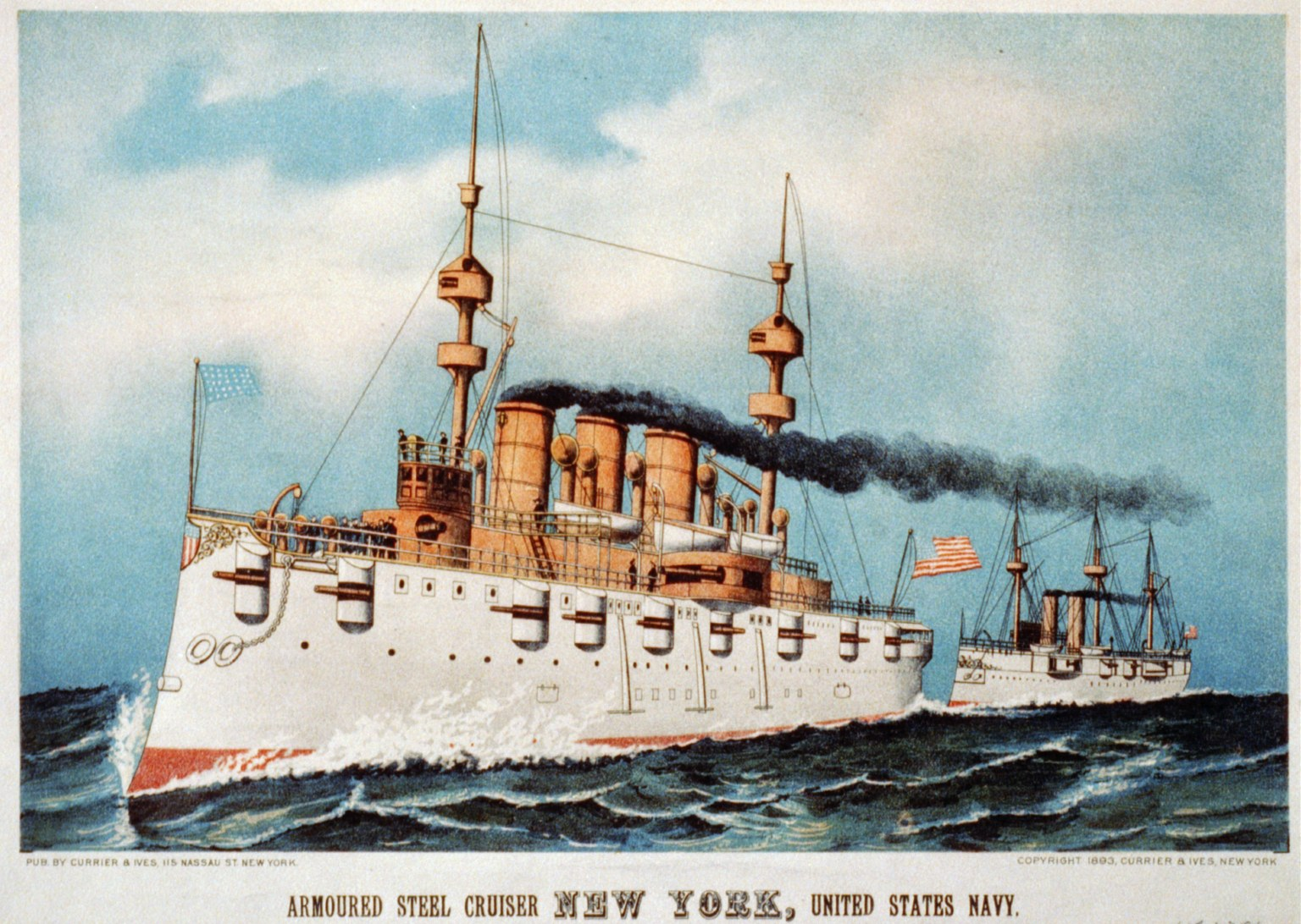 Armoured steel cruiser New York, United States Navy. New York: Currier & Ives. A size. Lithograph. B size. Currier & Ives : a catalogue raisonné / compiled by Gale Research. Detroit, MI : Gale Research, c1983, no. 0295